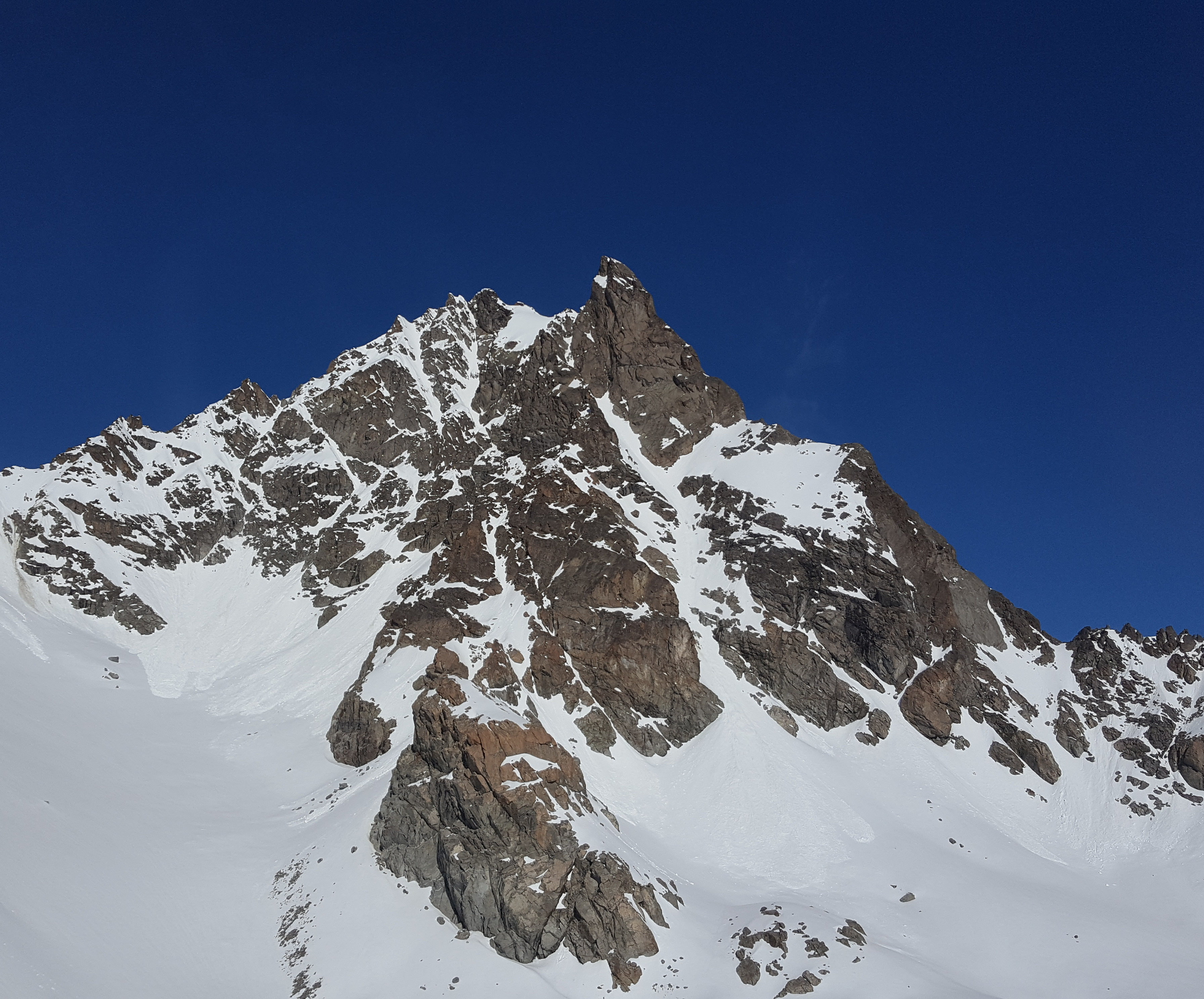 Keschnadel, picture taken from a helicotper (Zuoz, Grison, Switzerland)